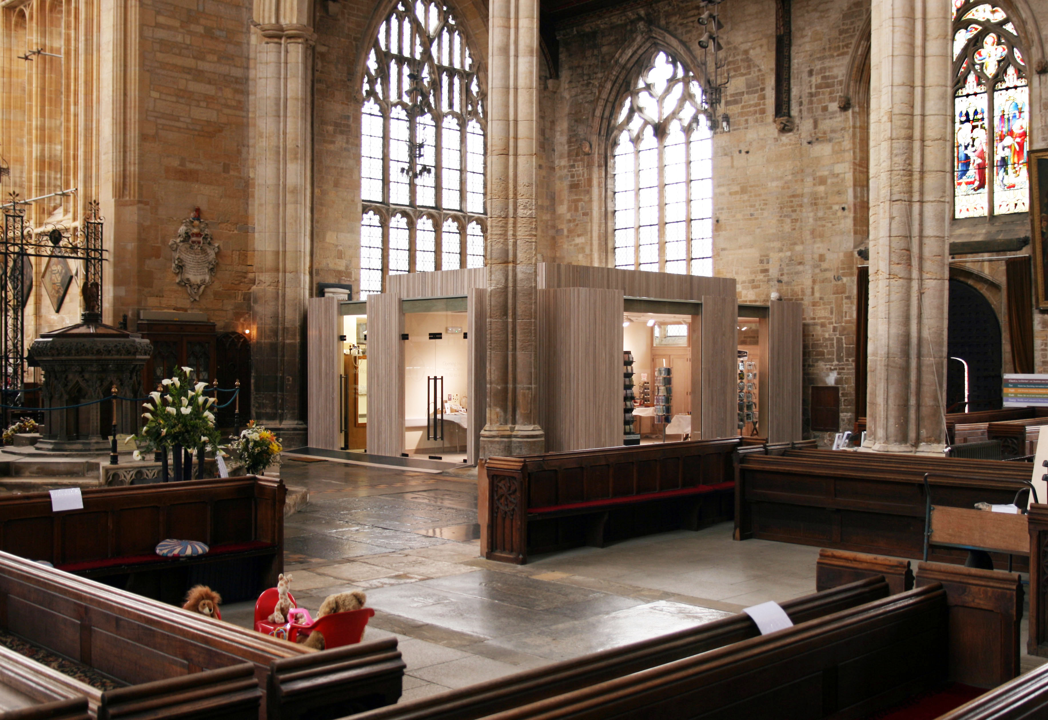 Award-winning bookshop at St Botolph's Church, Boston, England.